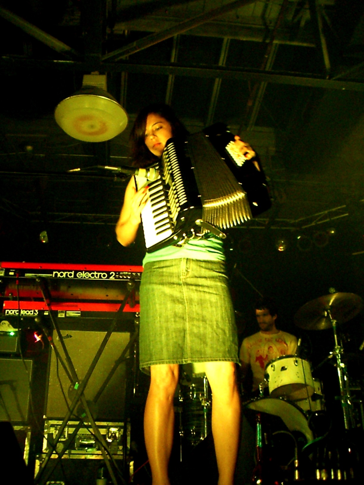 Pretty Girls Make Graves. Live in Orlando FL.